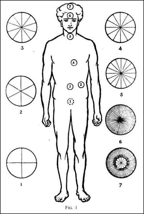 The chakras of man